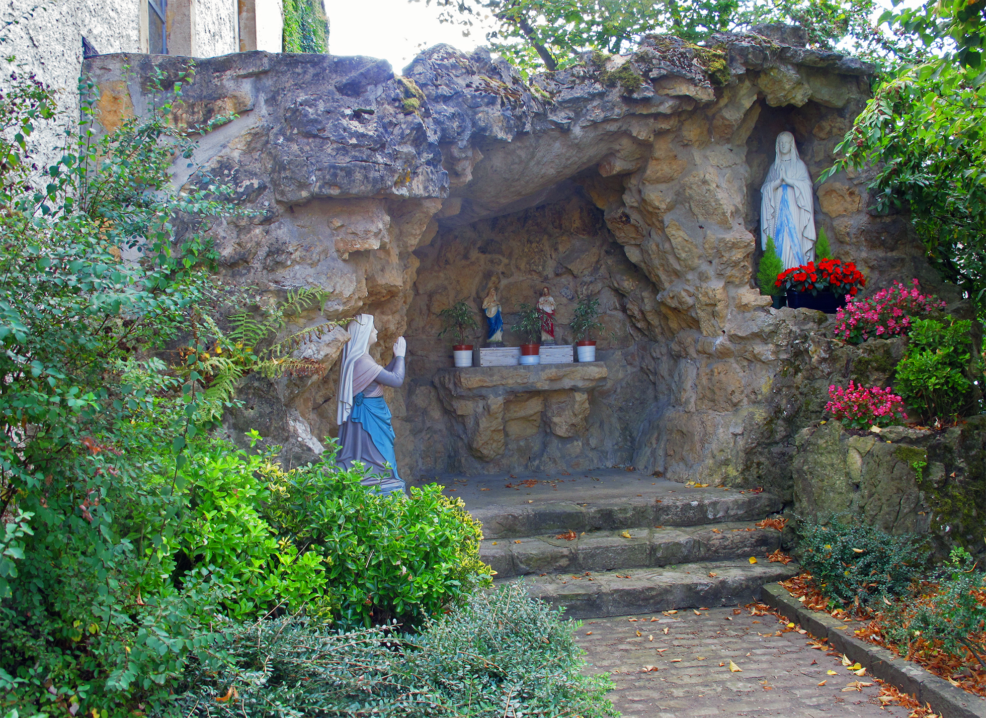 Grotto beside the church of Wellenstein, Luxembourg